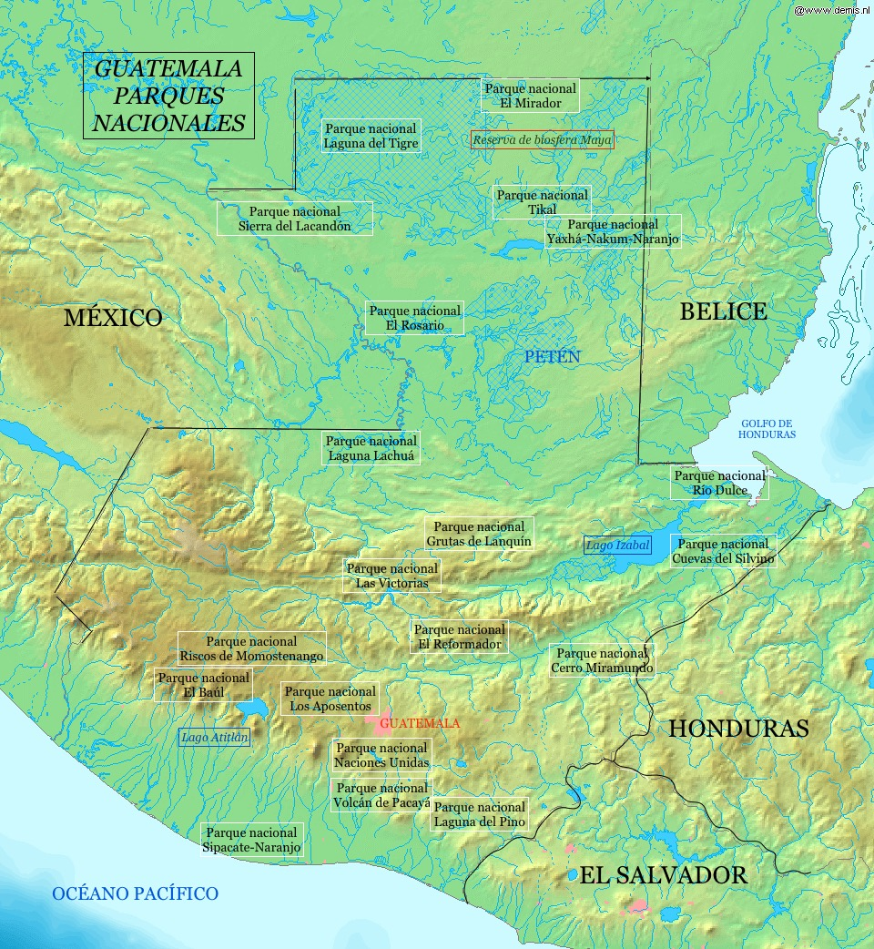 map of names of national parks of Guatemala